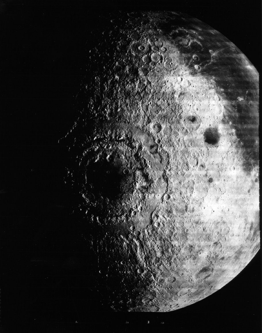 Lunar Orbiter 4 image of the Mare Orientale basin on the Moon. The basin forms a giant "bulls-eye" on the western limb of the Moon. Three distinct circular rings can be seen. The outer most is the Cordillera Mountain scarp, almost 900 km in diameter. The basin was formed by a giant impact early in the Moon's history. The north pole is towards the top.